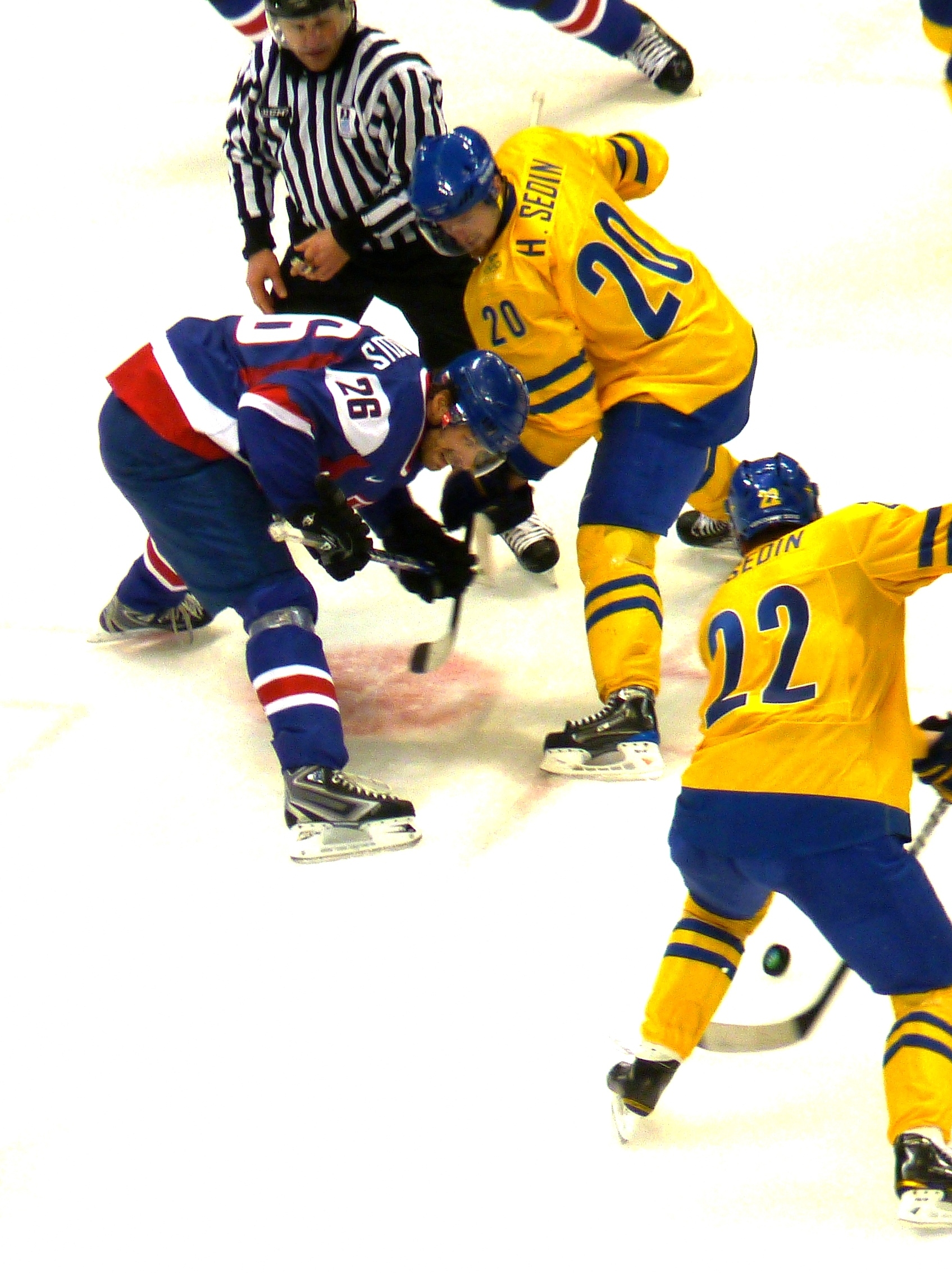 Michal Handzuš and Sedin brothers Daniel, Henrik. Sweden vs Slovakia, Winter Olympics Quarter-final in Vancouver, 24-Feb-2010